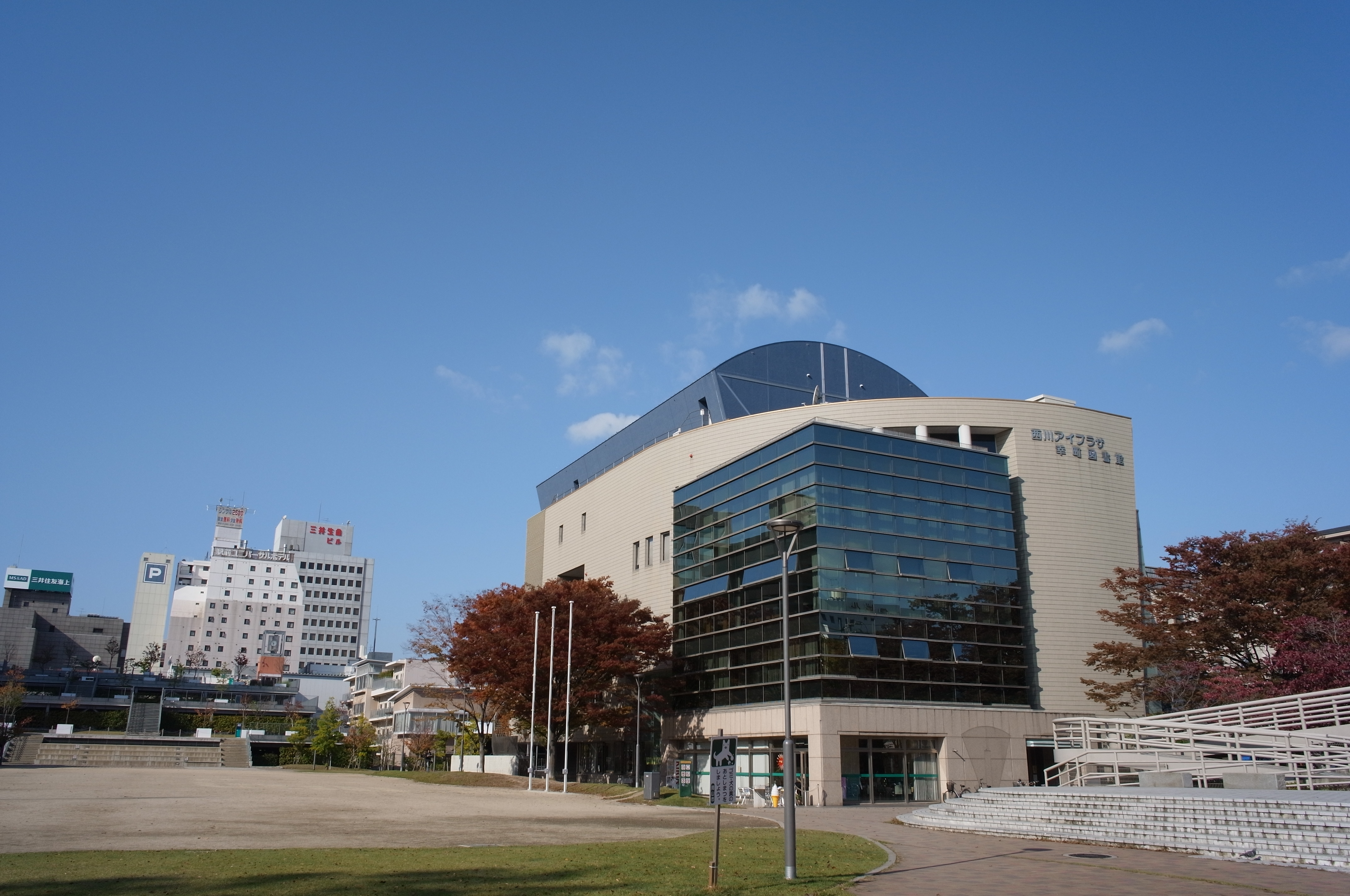 Munincipal Library in Okayama city, Japan